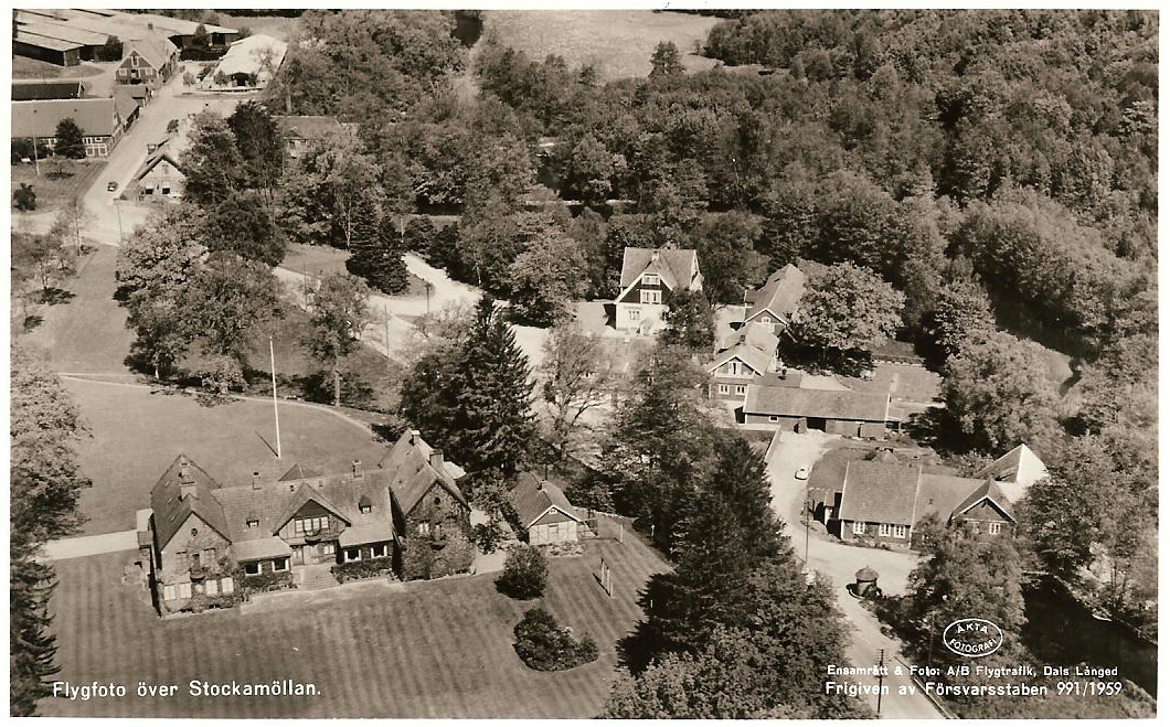 Stockamöllan Herrgård 1959 Flyg foto